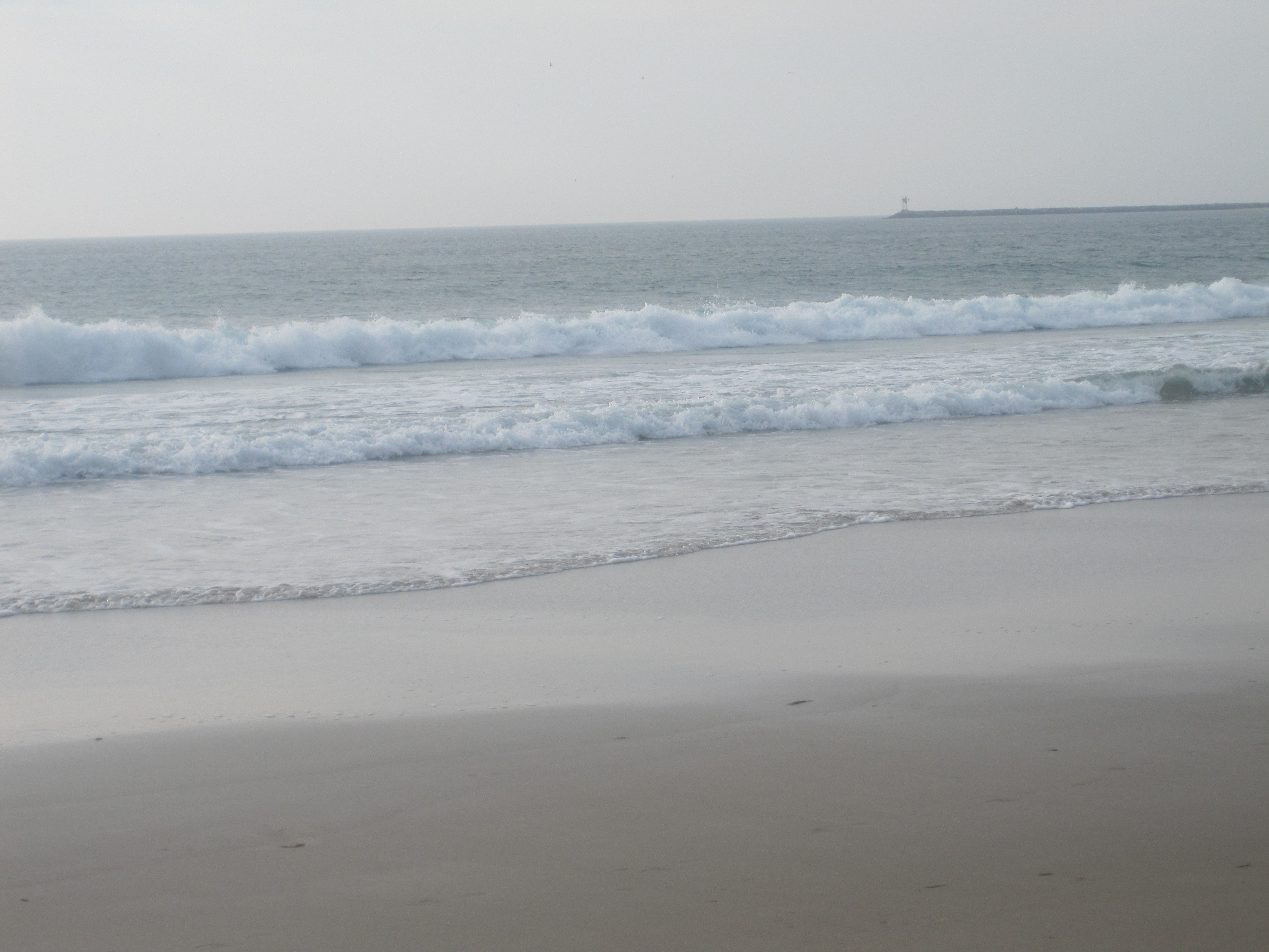 The tide at Block Island, RI